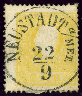 Austrian KK 2 kreuzer stamp, issue 1859, cancelled NEUSTADT a/MET(TAU) (Bohemia) - Mueller rarity index 35